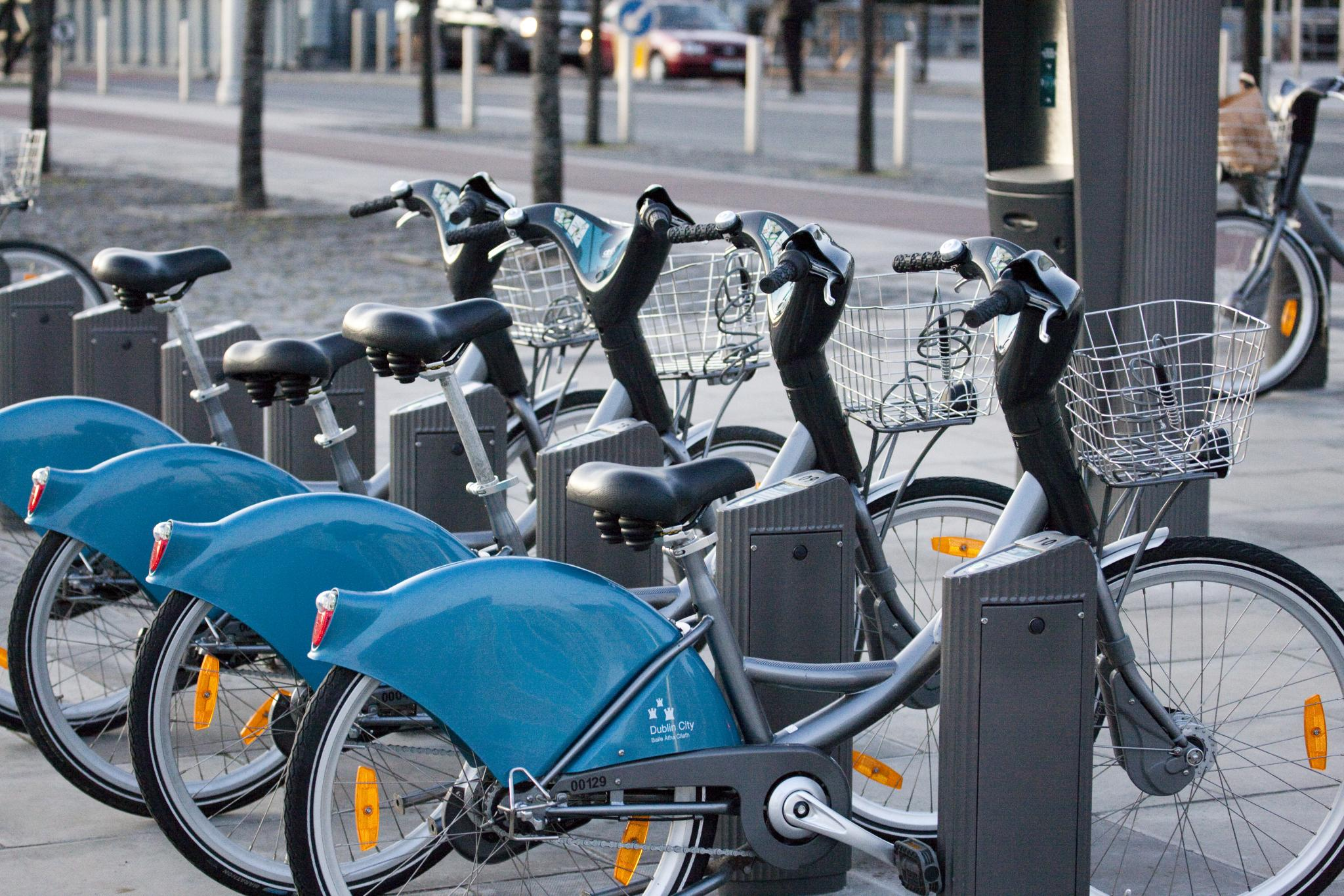 Dublin Bikes in the Dublin Docklands